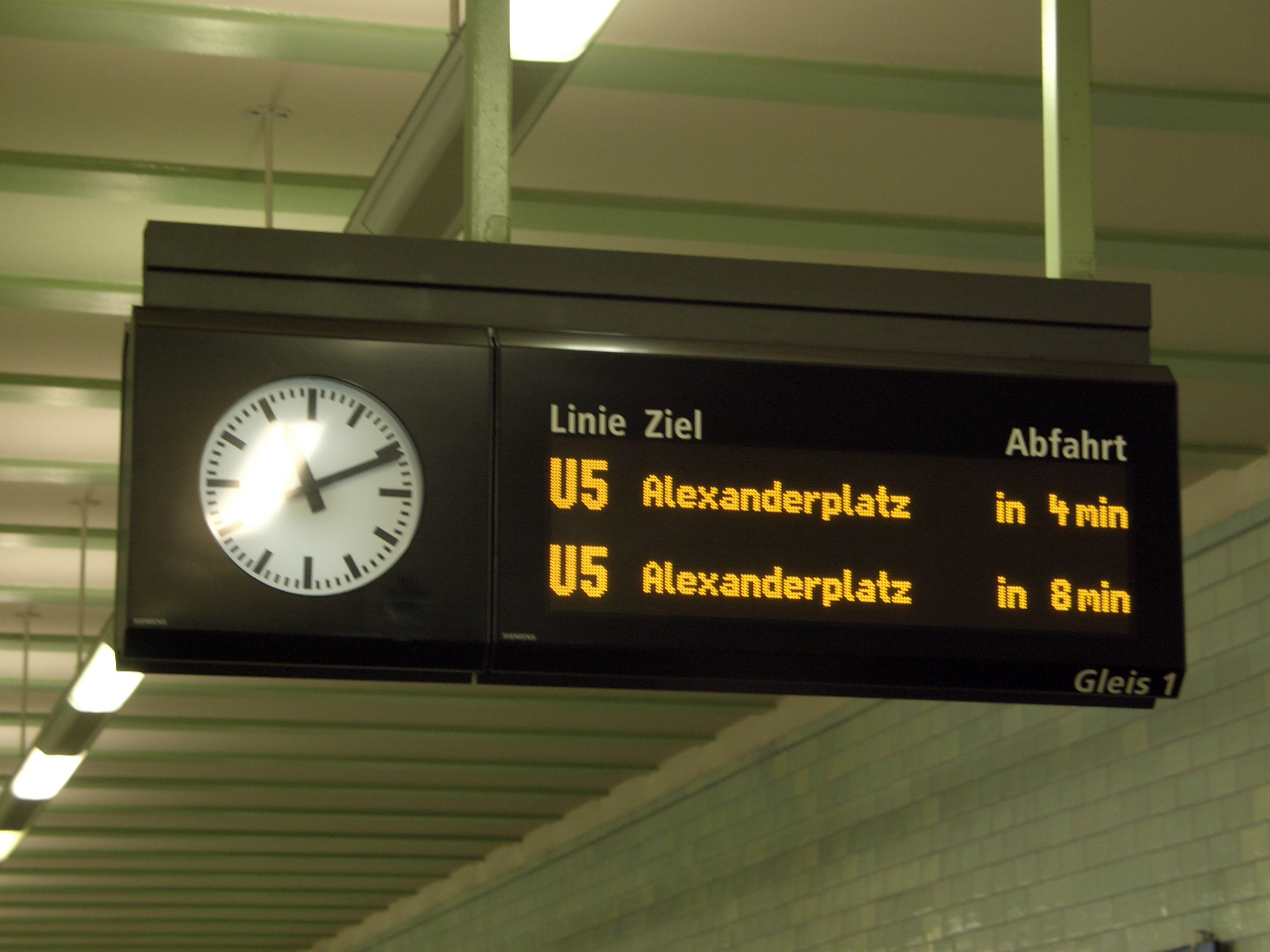 Train indicator in Berlin U-Bahn station Samariterstraße